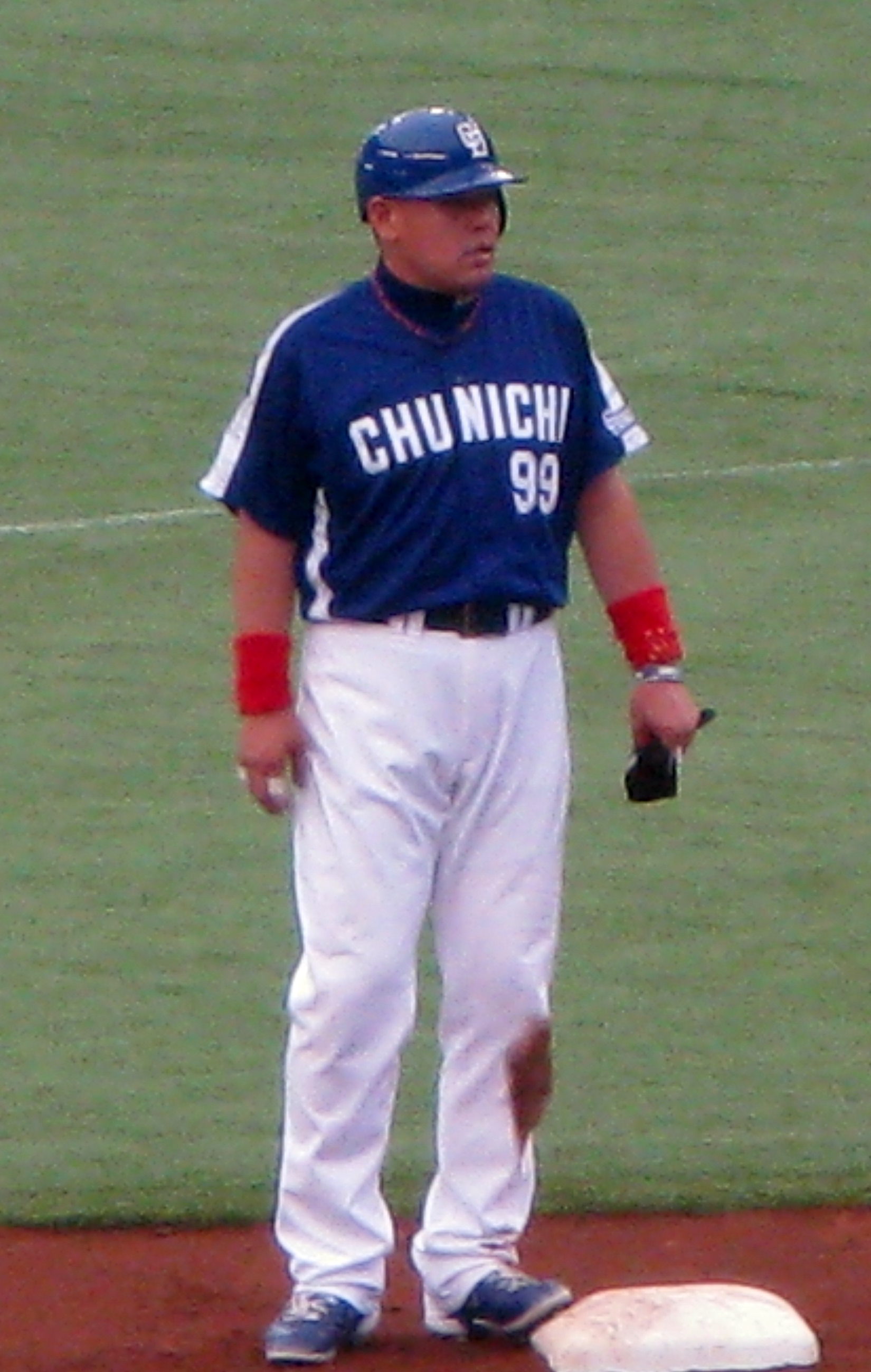 Norihiro Nakamura, infielder of the Chunichi Dragons, at Seibu Dome.